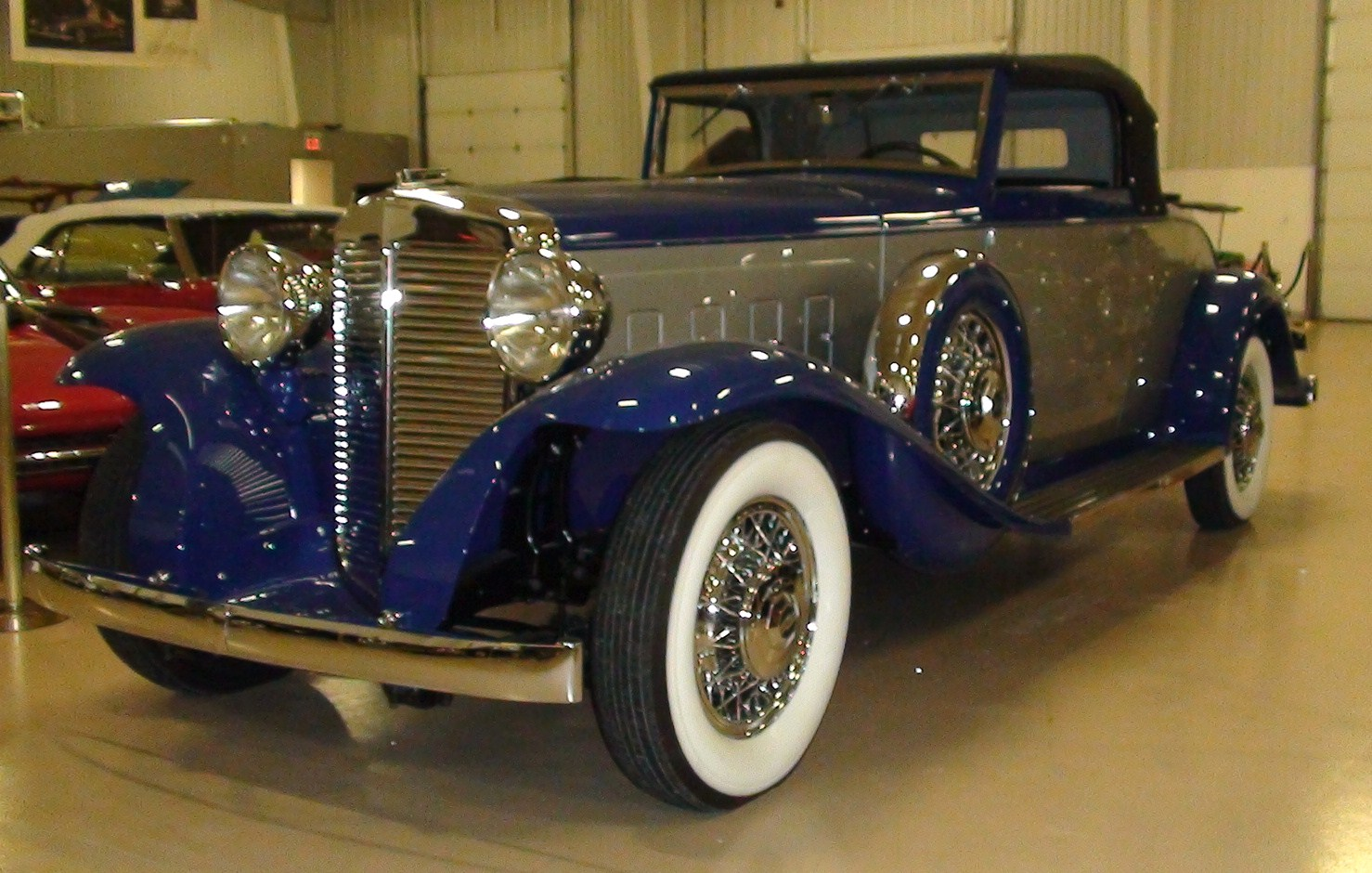 1932 Marmon Sixteen onvertible Coupe by LeBaron with V16 Cylinder engine (200 bhp)